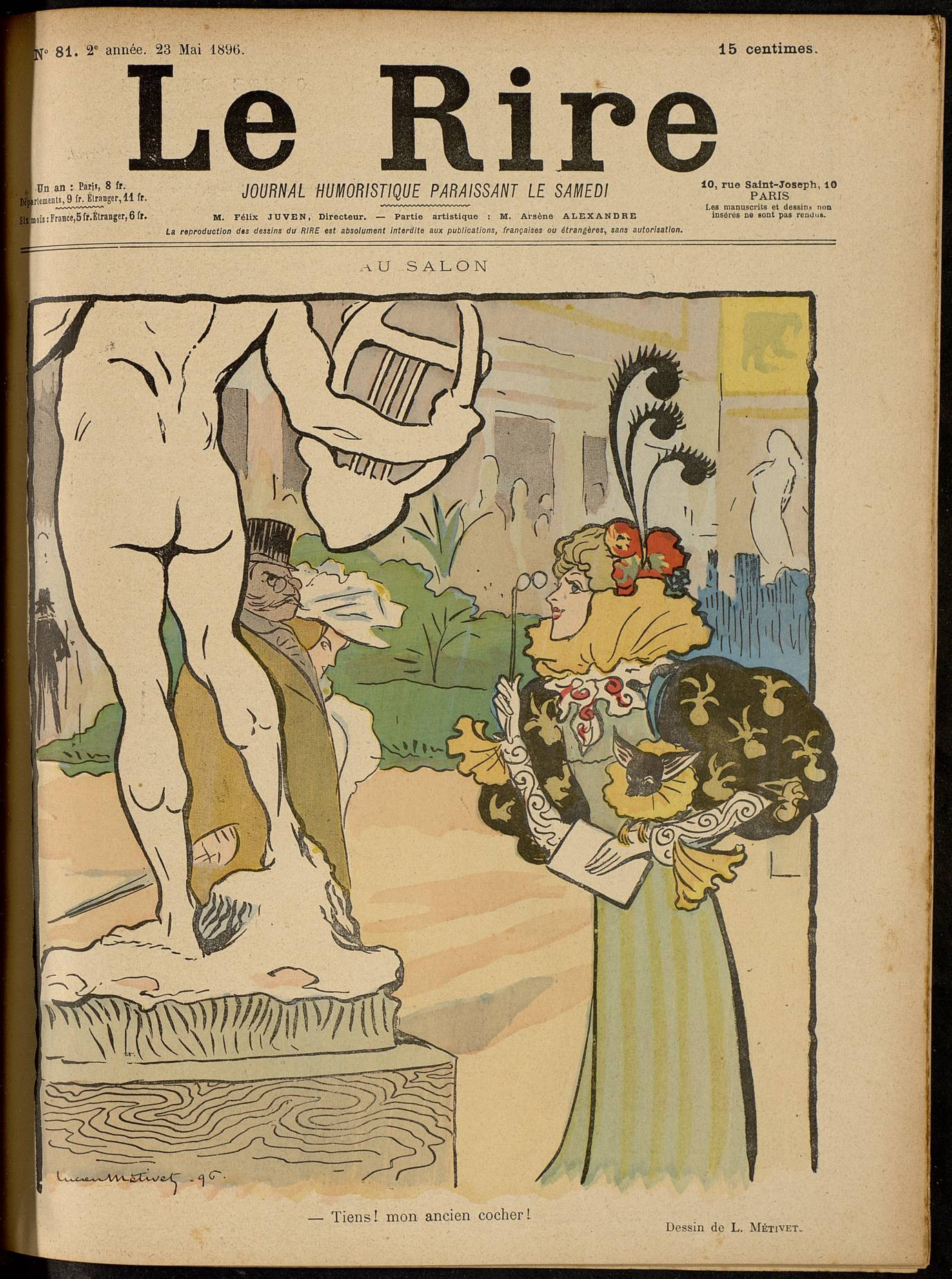 Lucien Métivet cartoon, "Le Rire", 1896: At the Sculpture Exhibition, "Hey! My old coachman!" Front cover of "Le Rire"